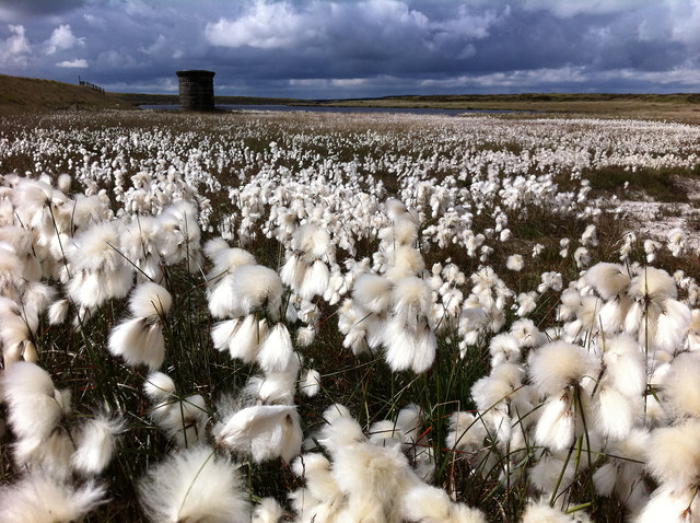 Common cottongrass (Eriophorum angustifolium) — the County Flower of Greater Manchester — at Light Hazzles Reservoir, just within the bounds of the Metropolitan Borough of Rochdale, at the Greater Manchester-West Yorkshire boundary.